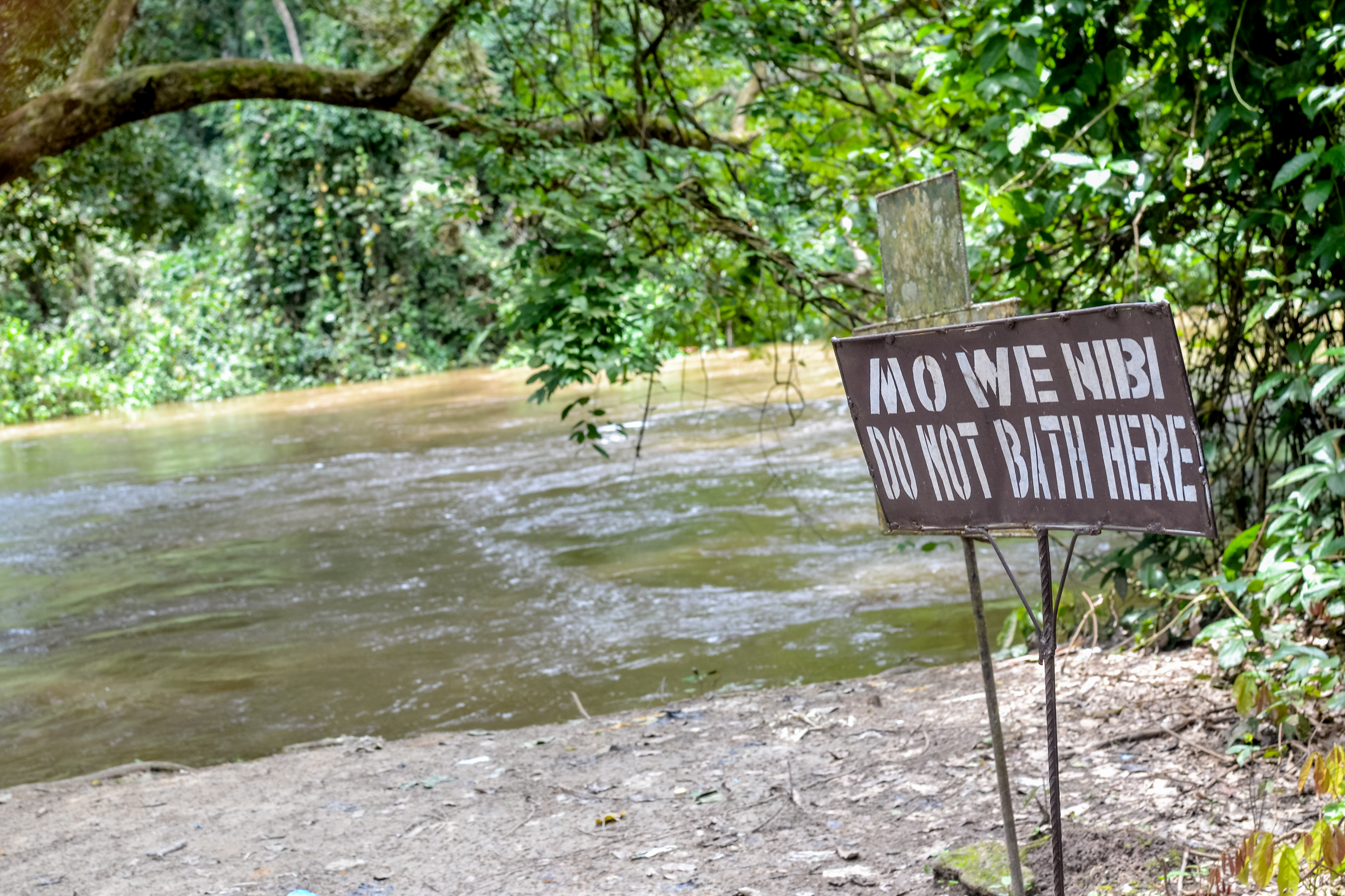 Osun river at the Sacred Grove Of Oshun